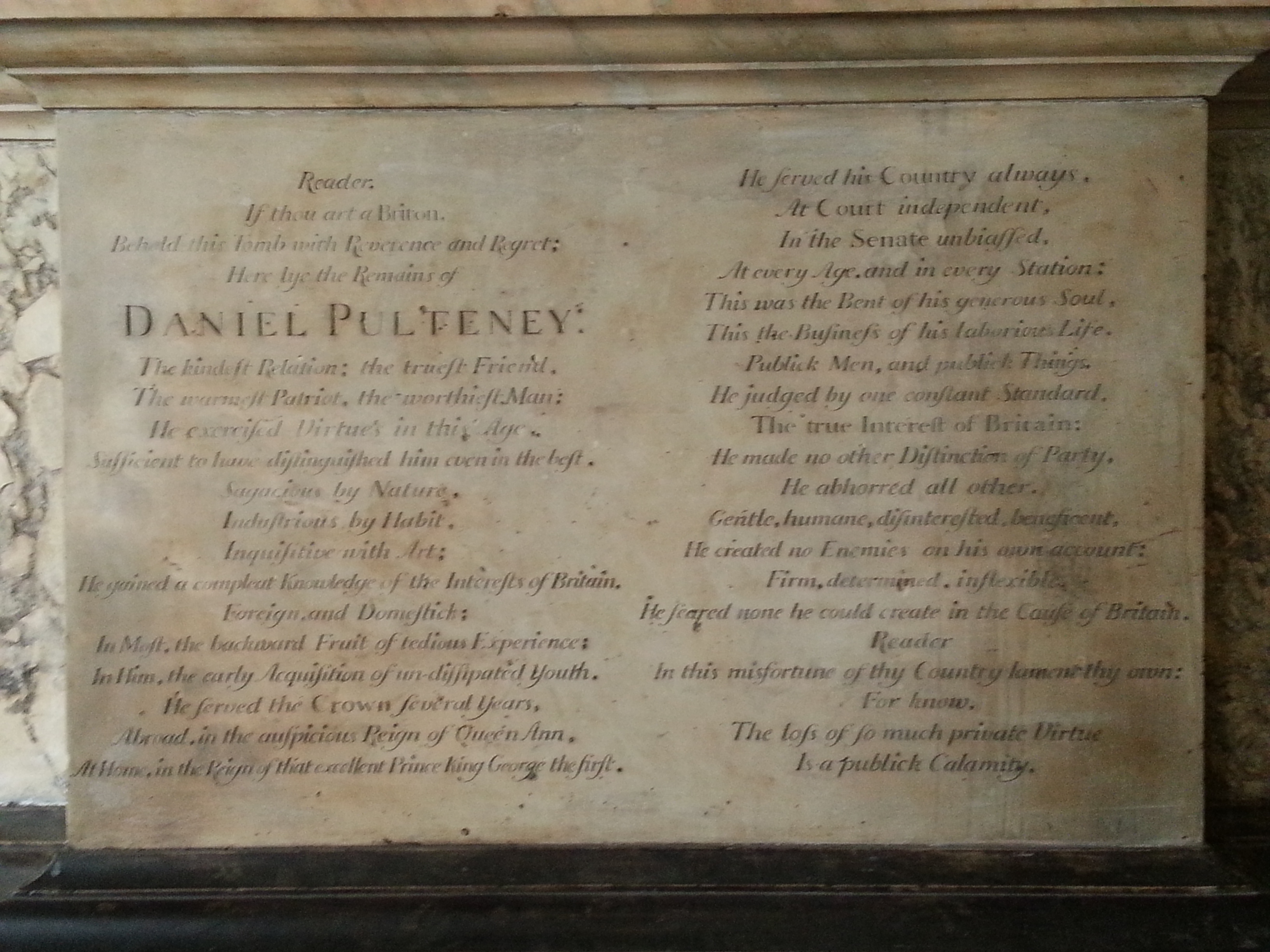 Memorial to Daniel Pulteney (1684-1731) in the cloisters at Westminster Abbey